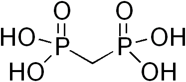 chemical structure of medronic acid (methylene diphosphonate)